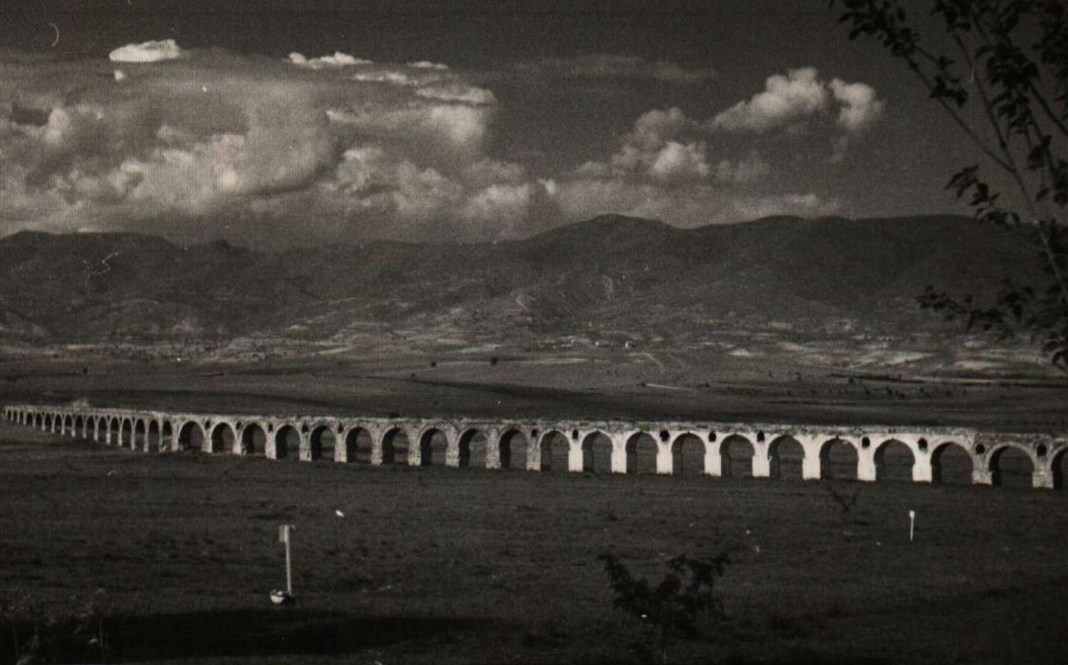 Skopje Aqueduct near Skopje, Republic of Macedonia.